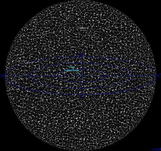 A simulated view of the entire observable universe, approximately 14 billion light-years across.